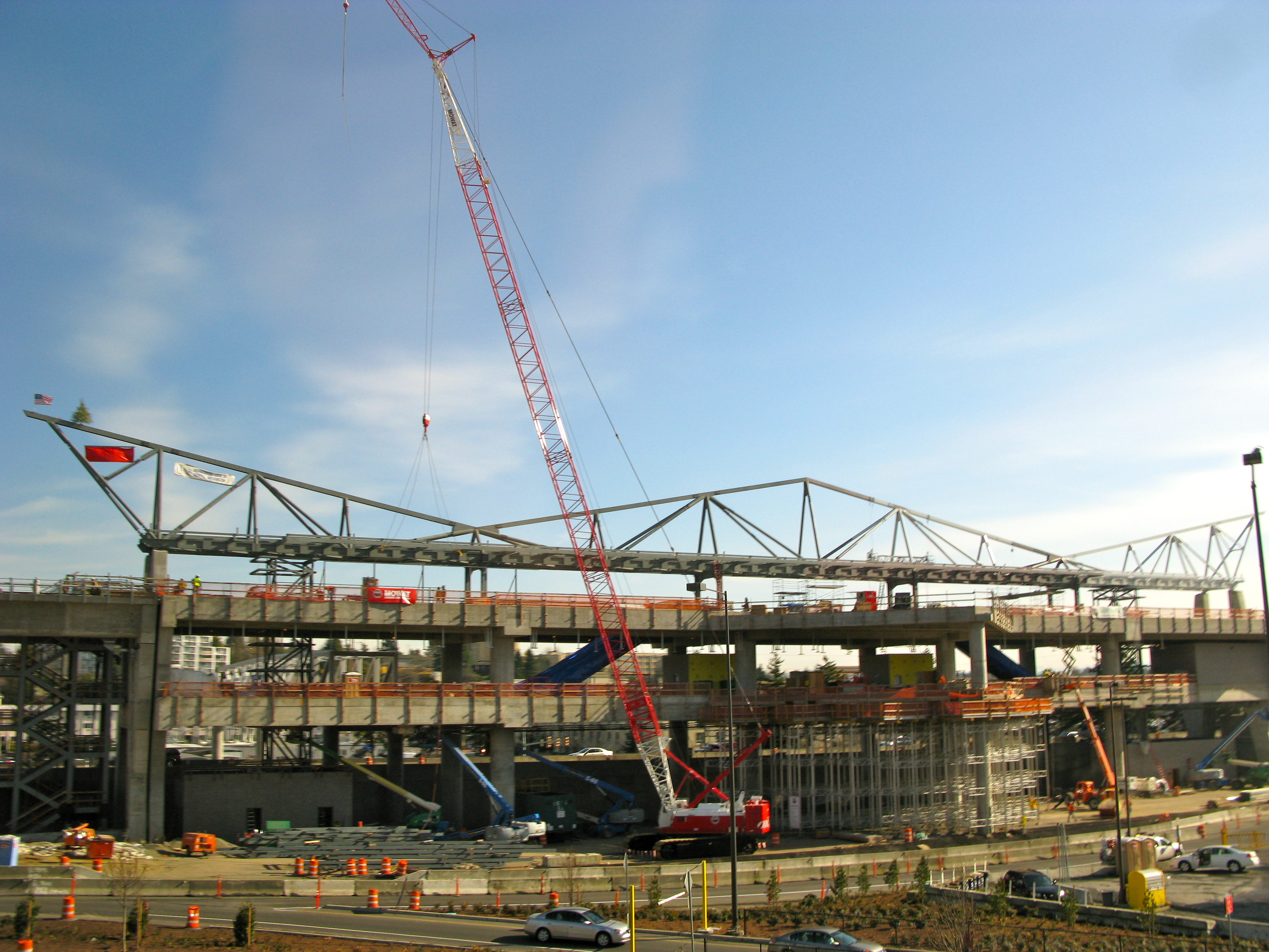 Construction of SeaTac/Airport station on the Link Light Rail line near Seattle, Washington.